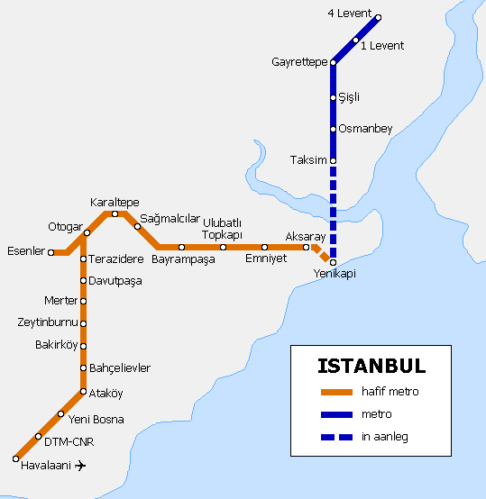 map of the Istanbul metro and hafif metro